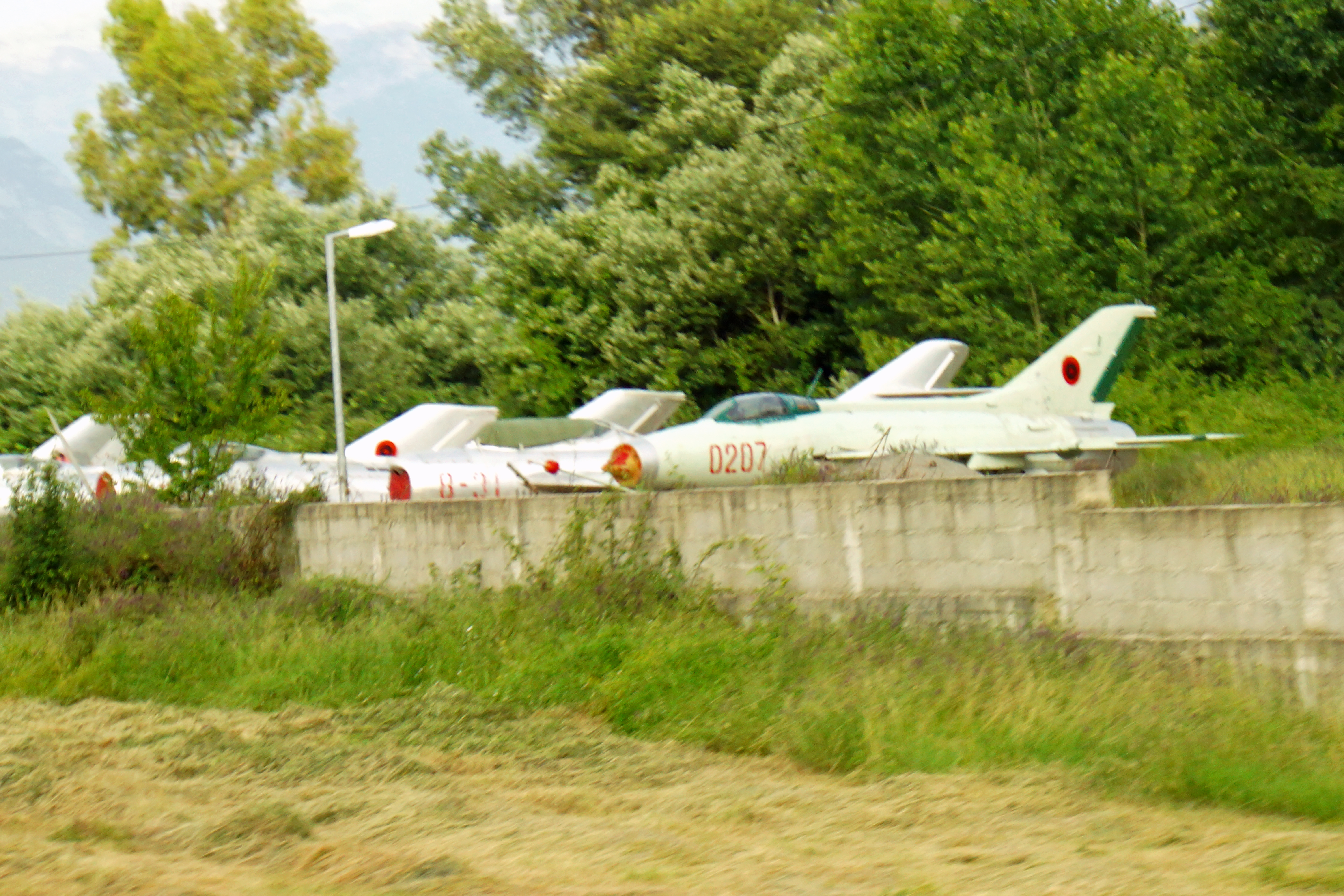 lbanian Air Force Shenyang J-6C fighters (left) and Albanian Air Force Shenyang FT-5 Lofting - all from China.